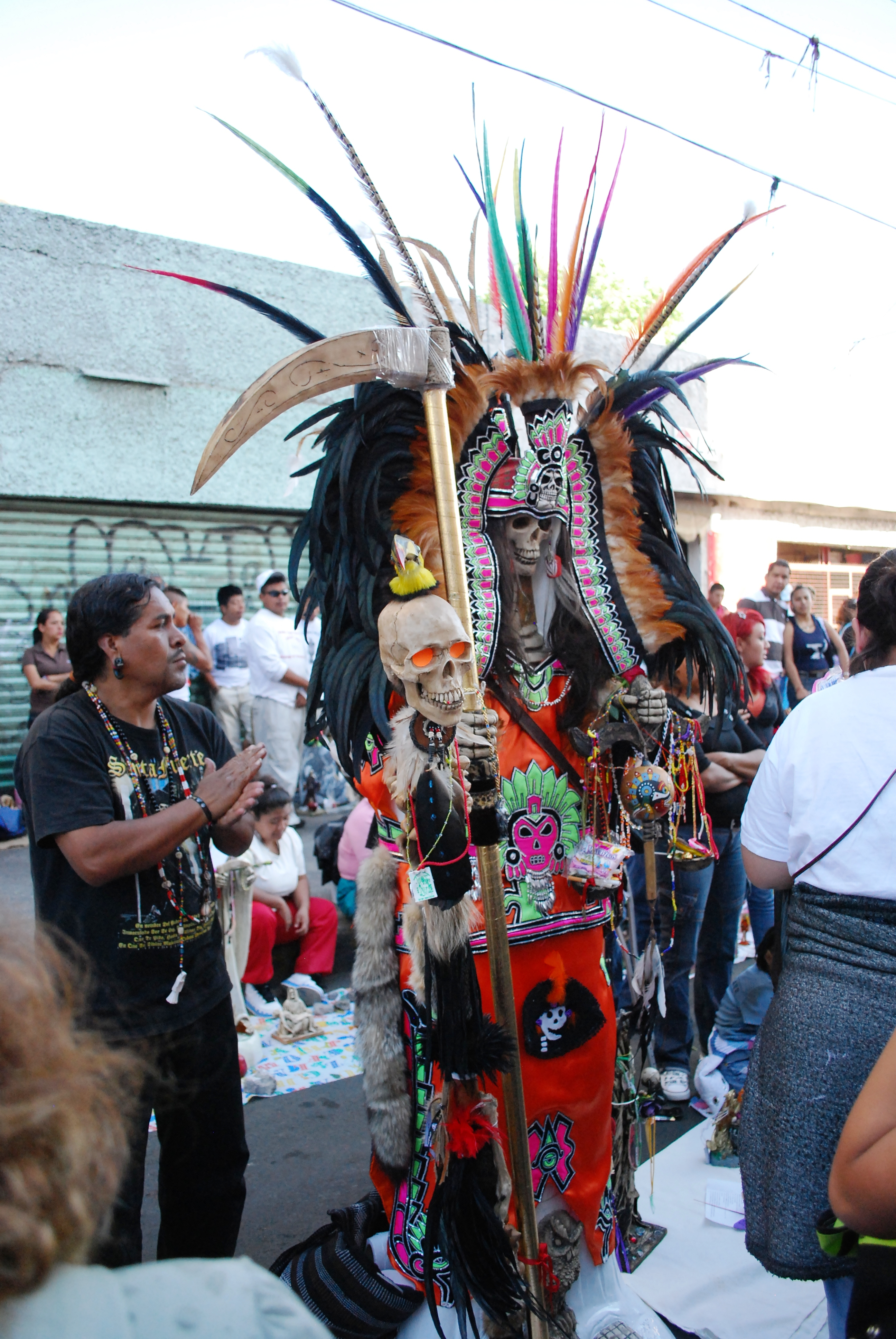 Santa Muerte dressed as an Aztec at the monthly service in Tepito, Mexico City